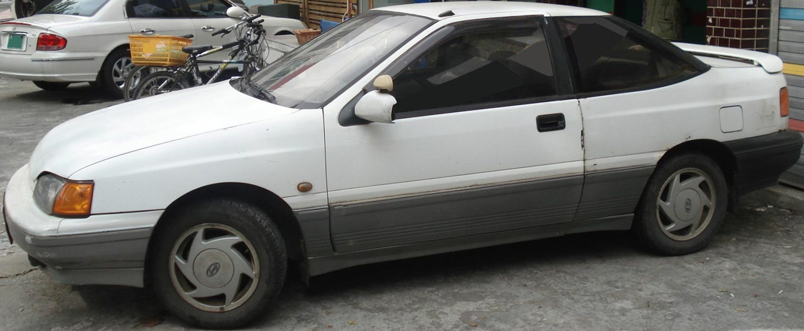 Hyundai Scoupe